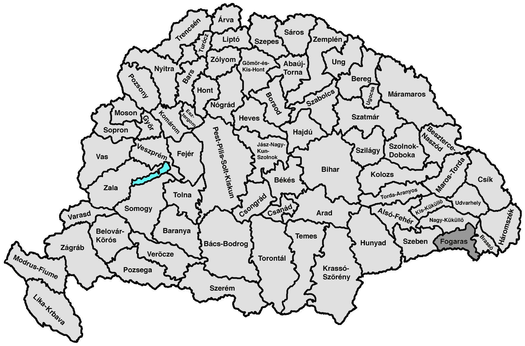 own edit of Image:Zala.png